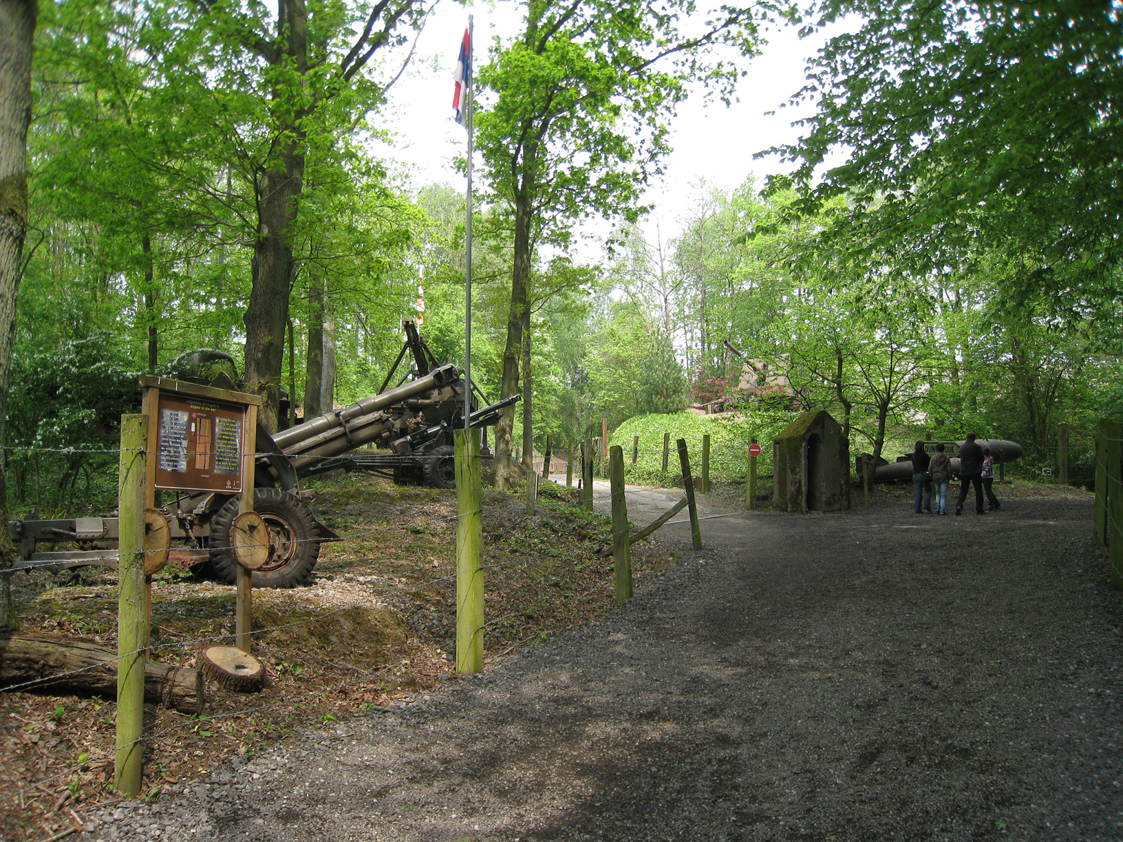 Exhibits at the museum of Le Blockhaus d'Éperlecques.